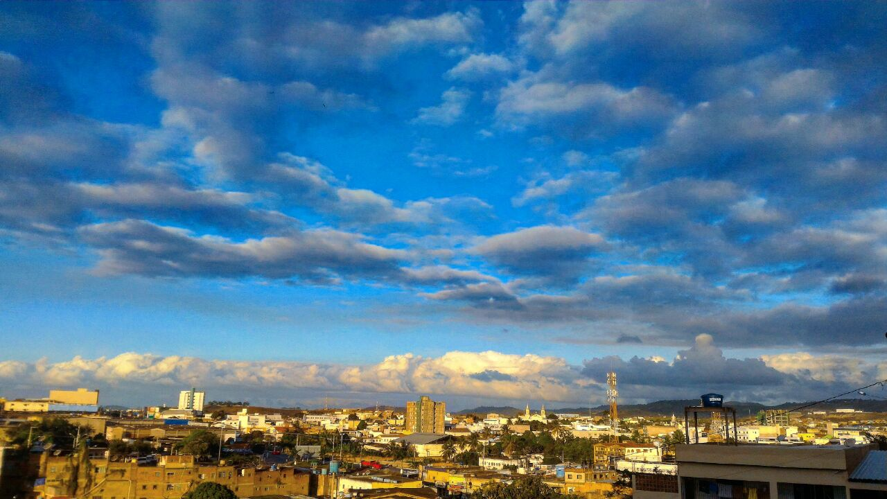 donwtown vitória de santo antão